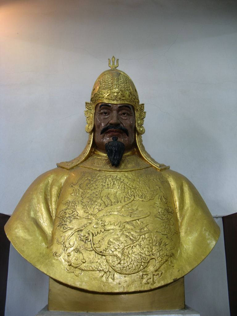 Statue of Qi Jiguang in Fuzhou